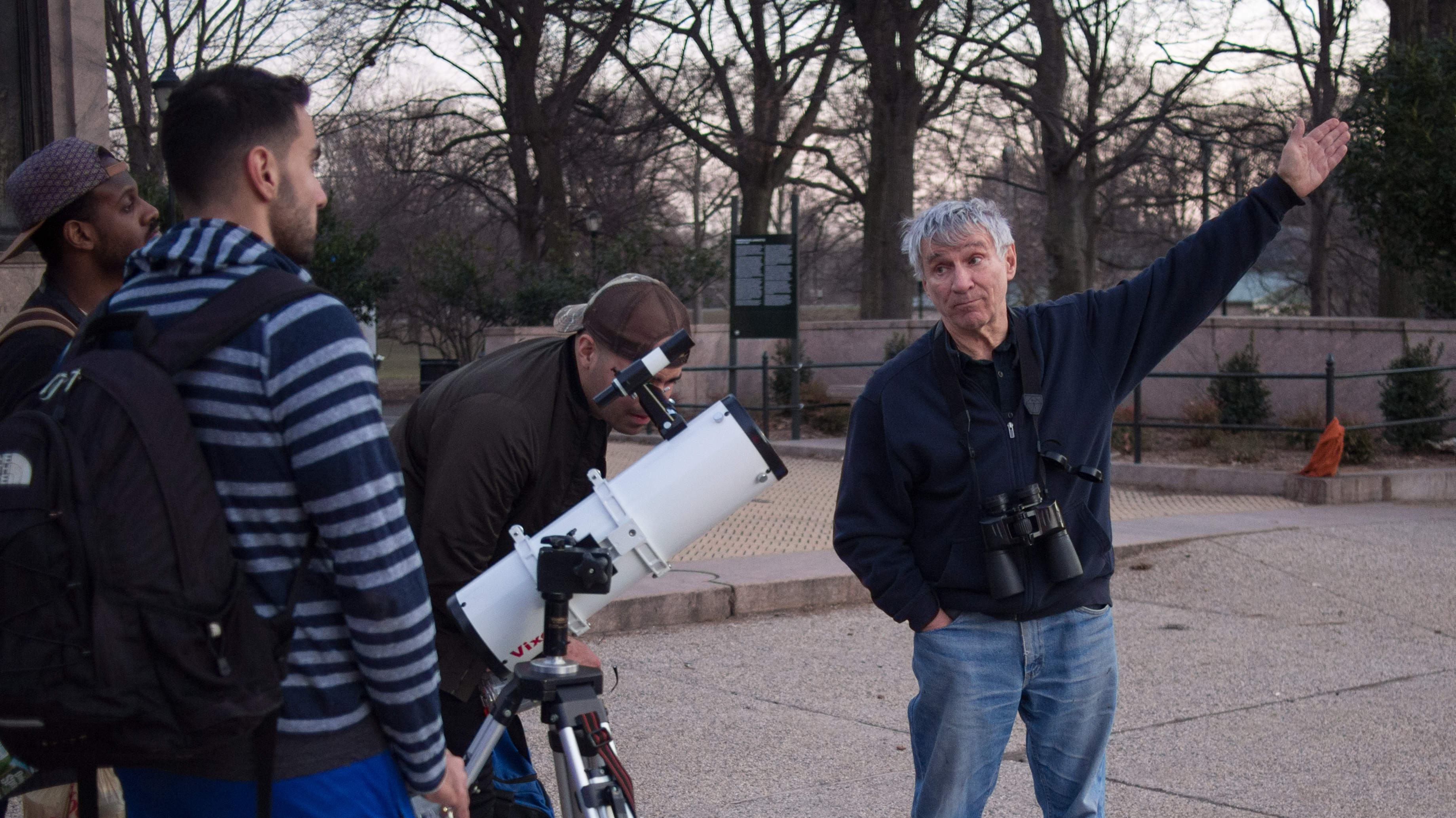 A man set up a telescope outside Prospect Park in Brooklyn, inviting passers by to take a look at Venus, which was unusually bright at the time.